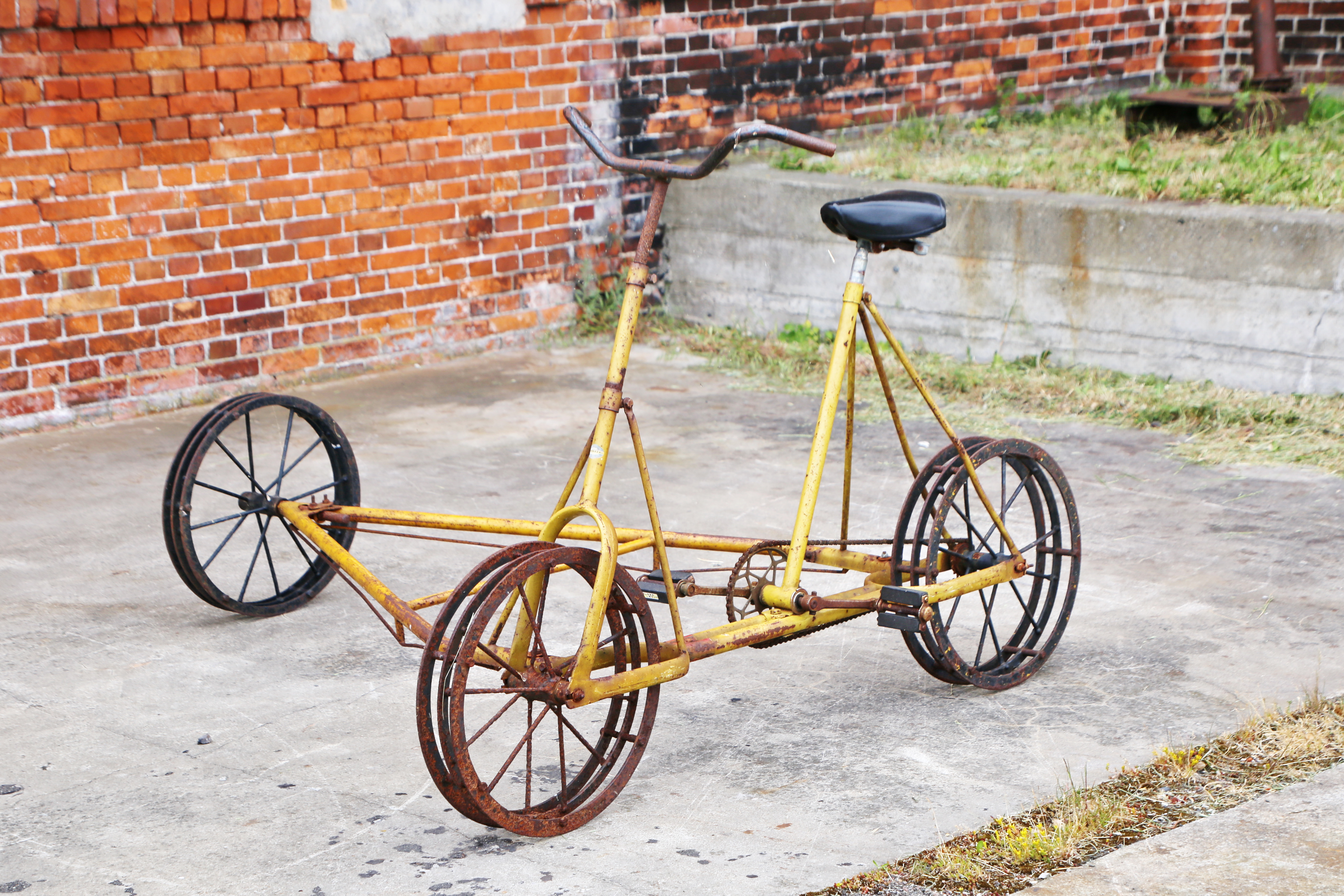 Fahrrad-Draisine im Gedser Eisenbahn-Museum